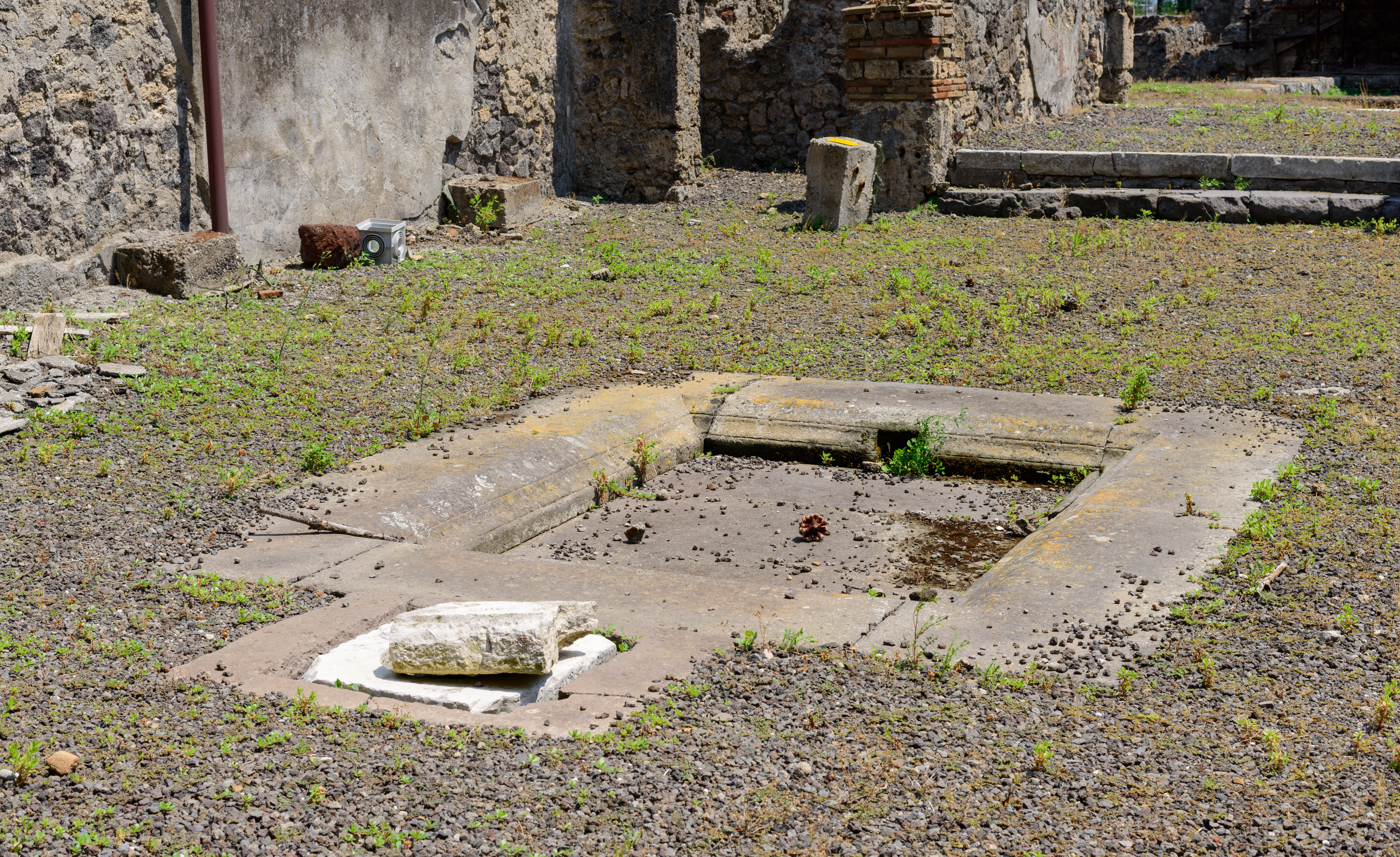 Impluvium (water basin) in the center of the Atrium of a former house, ancient Roman Pompeii, Campania, Italy. The drain into the underground cistern is well visible.